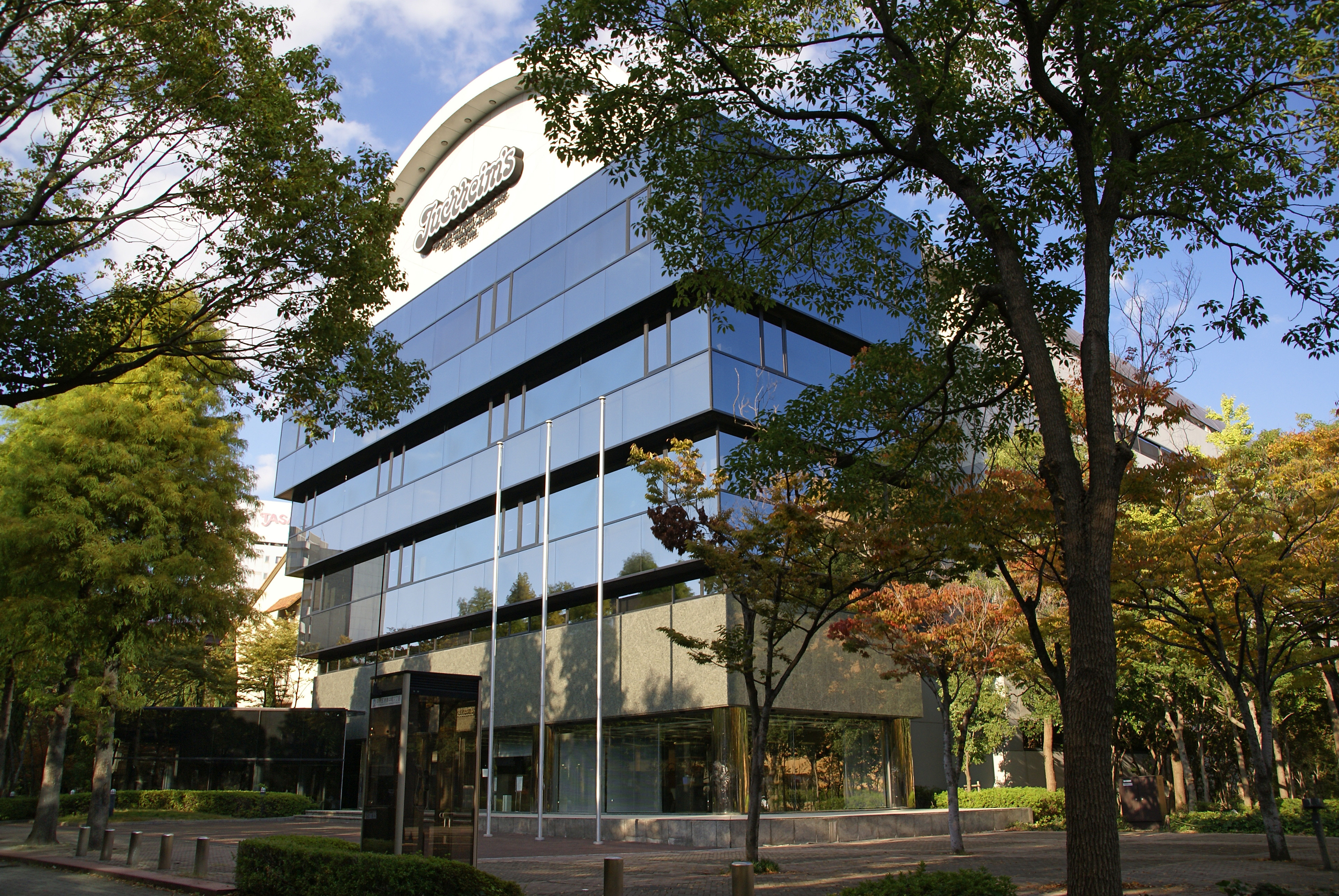 Juchheim Co., Ltd. headquarters in Kobe, Hyogo prefecture, Japan